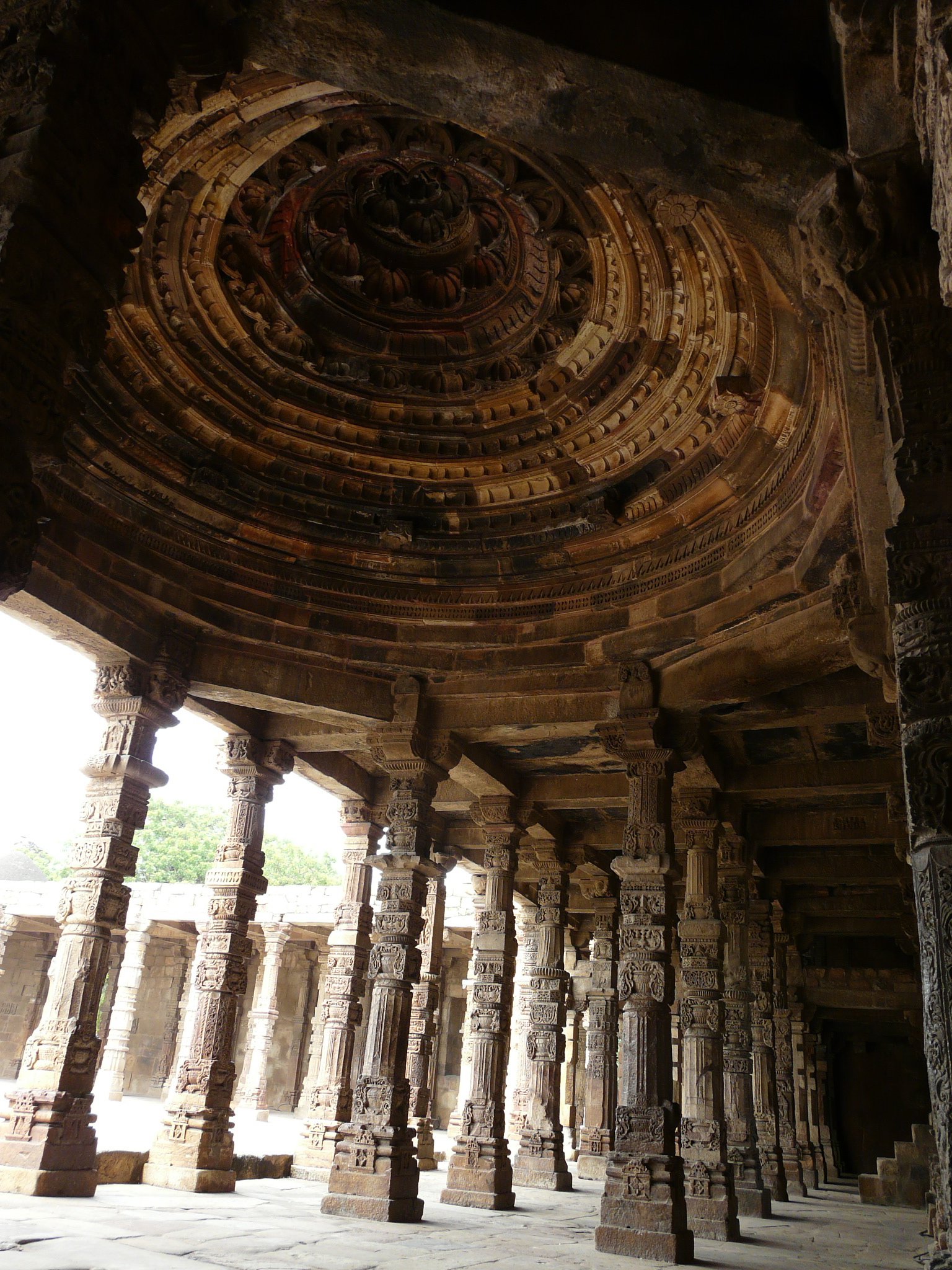 East entrace domed ceiling, Quwwat ul-Islam Mosque